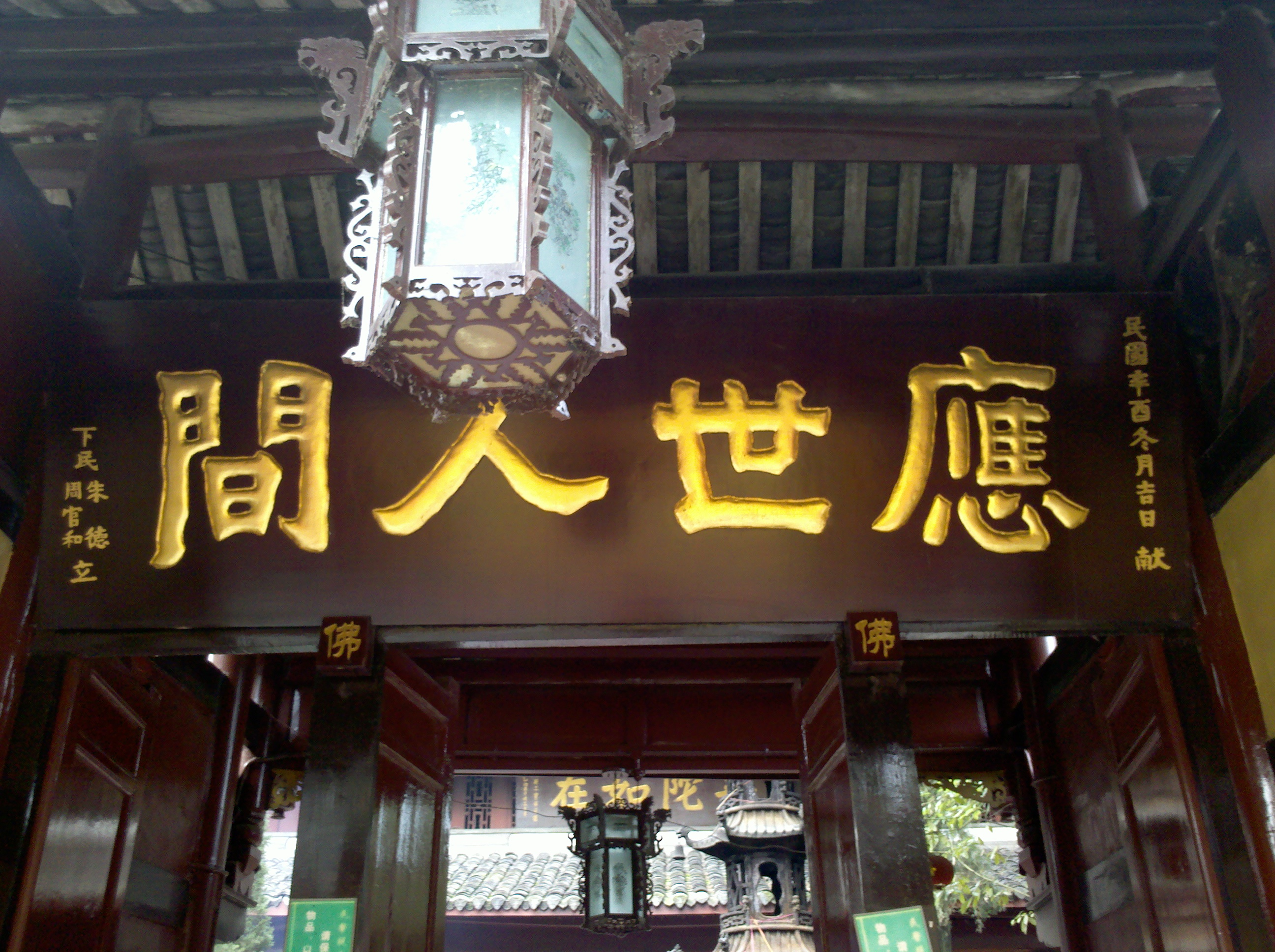 ZhuDe and Zhaojue temple